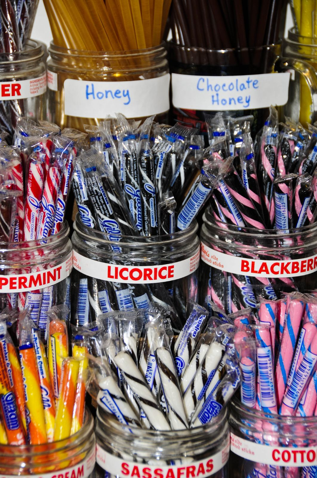 A variety of different flavors and colors of stick candy in a store display. "Old Fashioned Sticks" candy sticks produced in Mexico by the Gilliam Candy Company (now a division of King Leo Candy). Photo taken at the Bridgeton Mill store in Bridgeton, Indiana, United States, with a Nikon D300 digital camera.